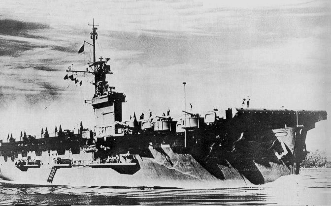 The U.S. Navy Casablanca-class escort carrier USS Roi (CVE-103) underway.